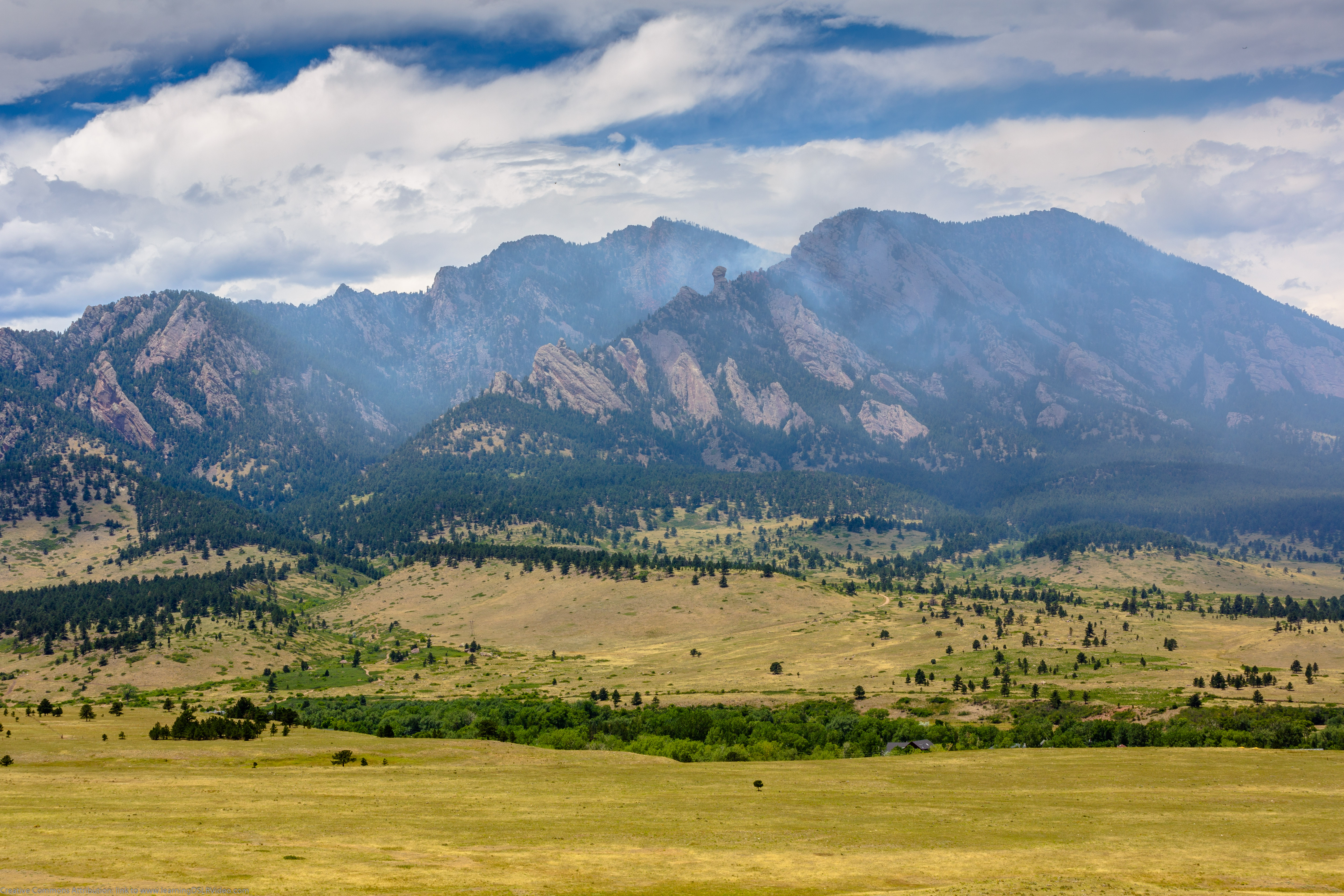 Feel free to use this image just link to